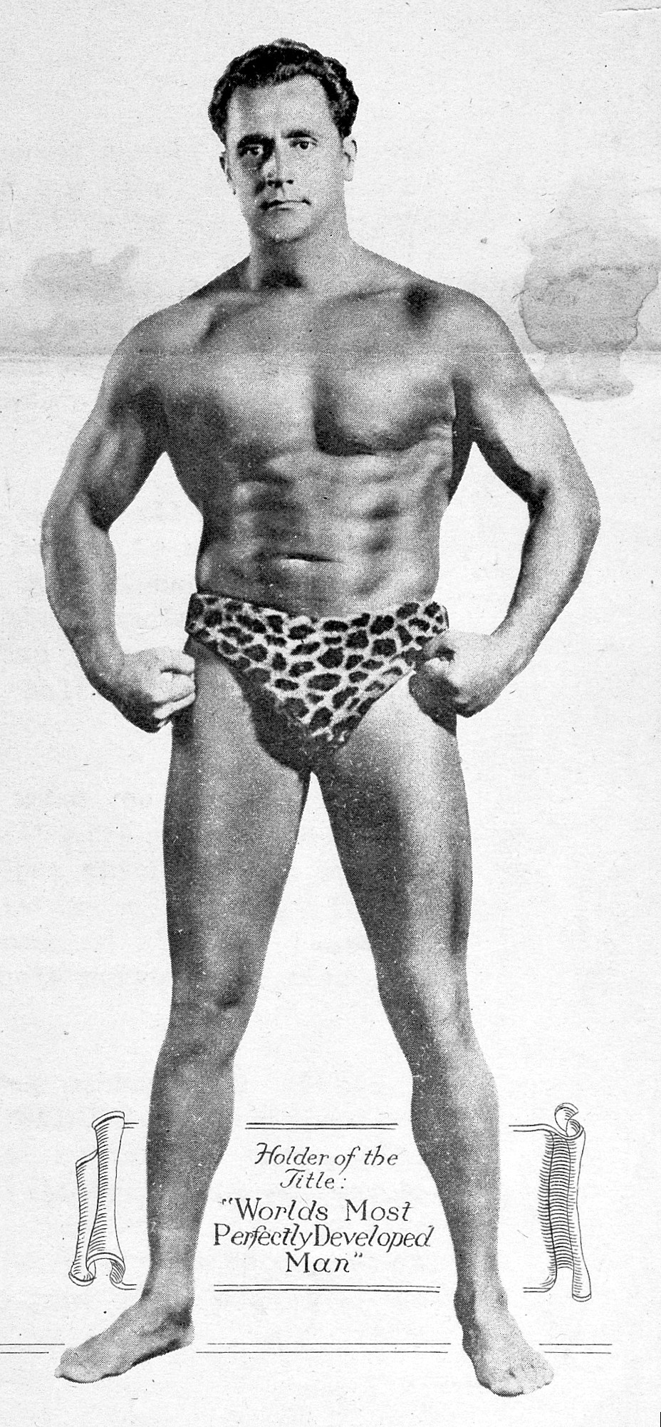 Enrolement letter: "The World's Most Perfectly Developed Man" Wellcome Images Keywords: PHYSIQUE; Charles Atlas